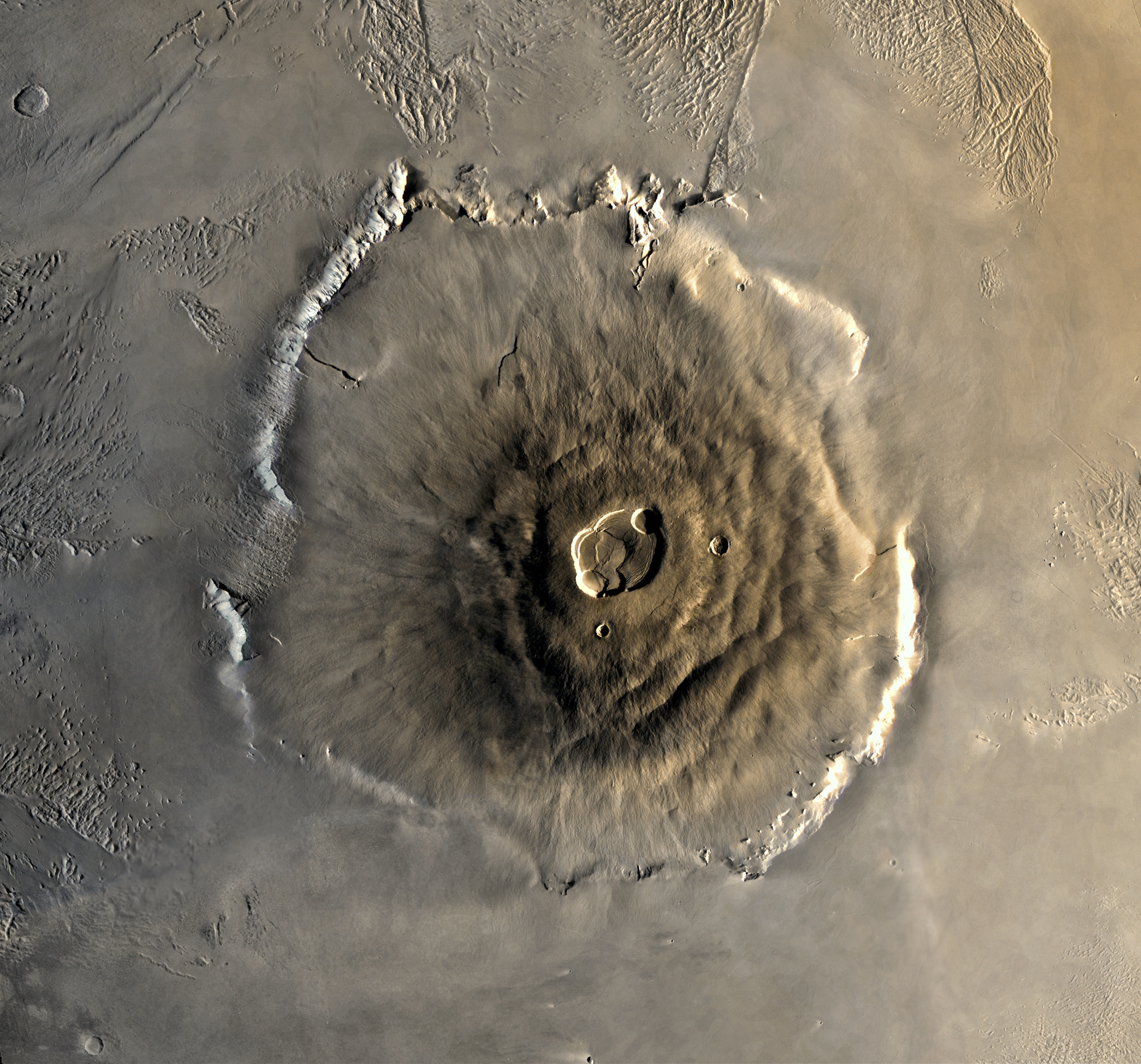 A composite Viking orbiter image of Olympus Mons on Mars, the tallest known volcano and mountain in the Solar System.